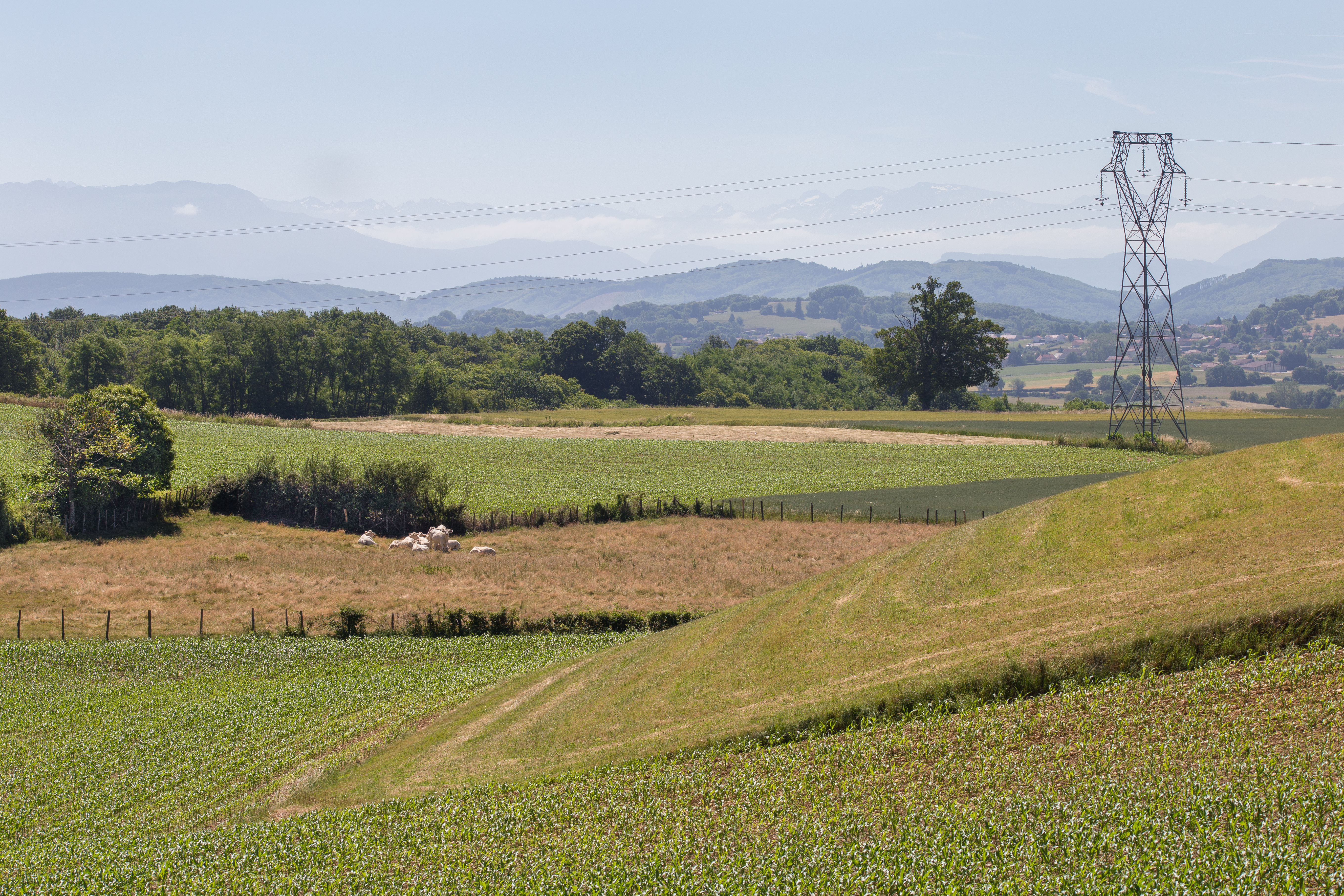 Rural landscape towards Saint-Didier-de-Bizonnes, Isère.